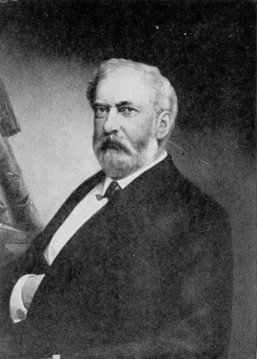 George Proctor Kane, 1820-1878